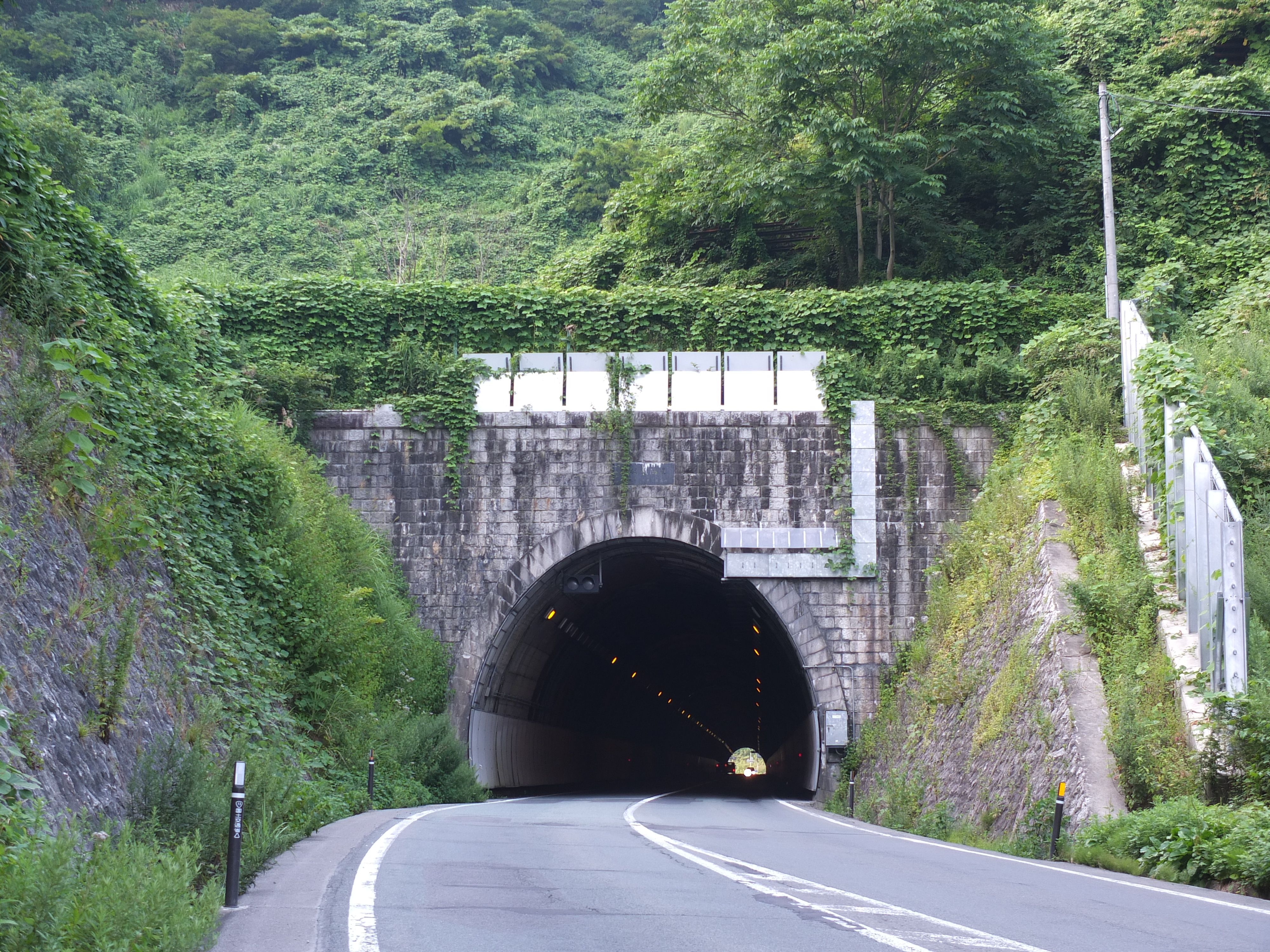 Sabane-zuidou (tunnel) on National route #13 between Obanazawa city and Hunagata town, Yamagata prefecture, Japan.